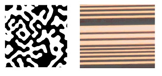 Phase pattern of diffractive beam splitter. Two dimensional left and one dimensional right.